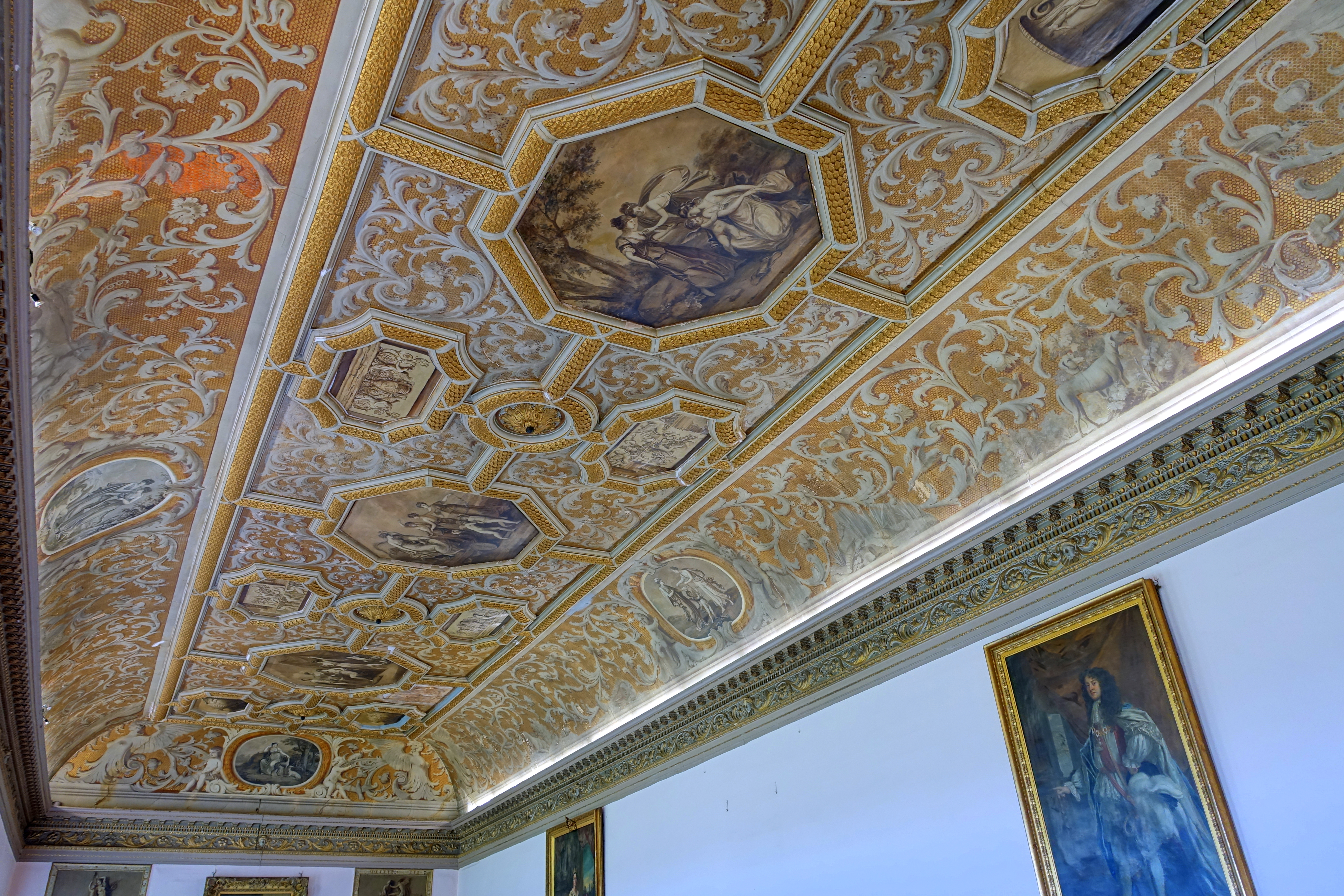 Interior view of Stowe House - Buckinghamshire, England.